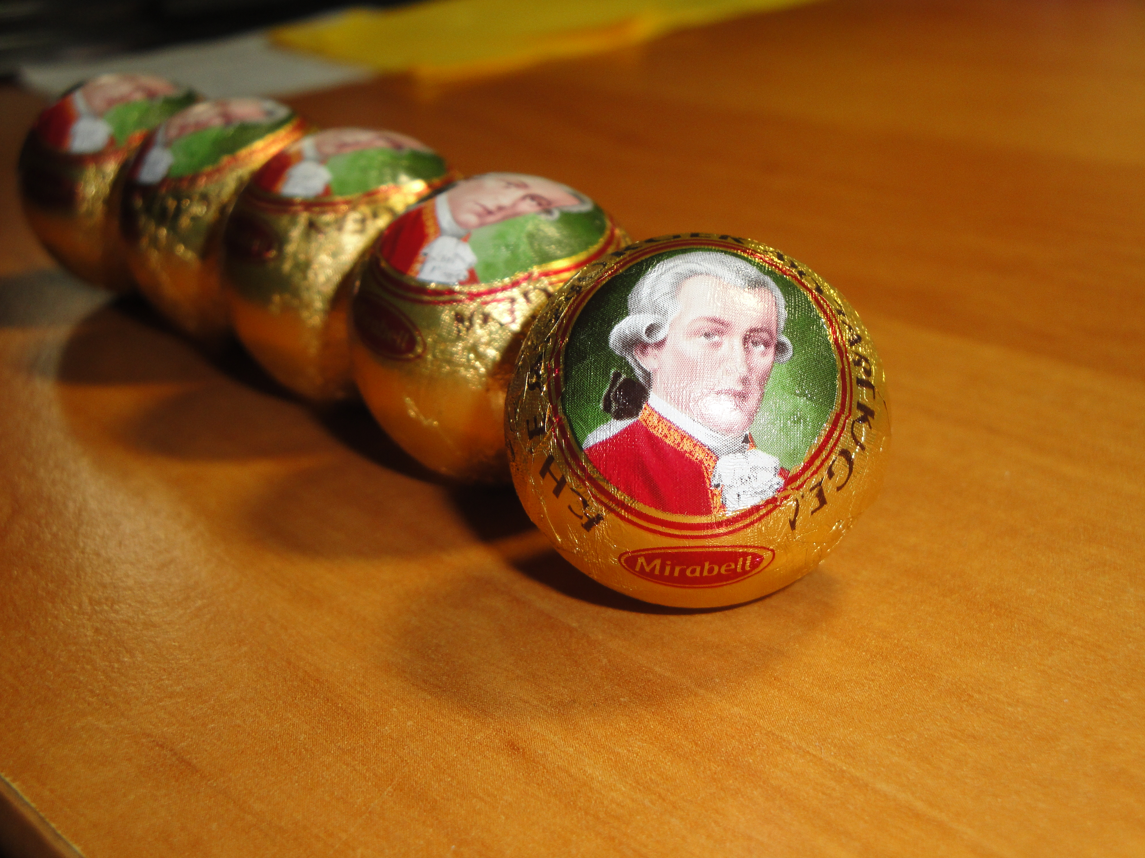 Mozartkugeln